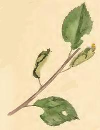 Stainton’s Natural History of the Tineina (1855–1873): Dichomeris derasella a sprig of sloe with leaves rolled up by larva